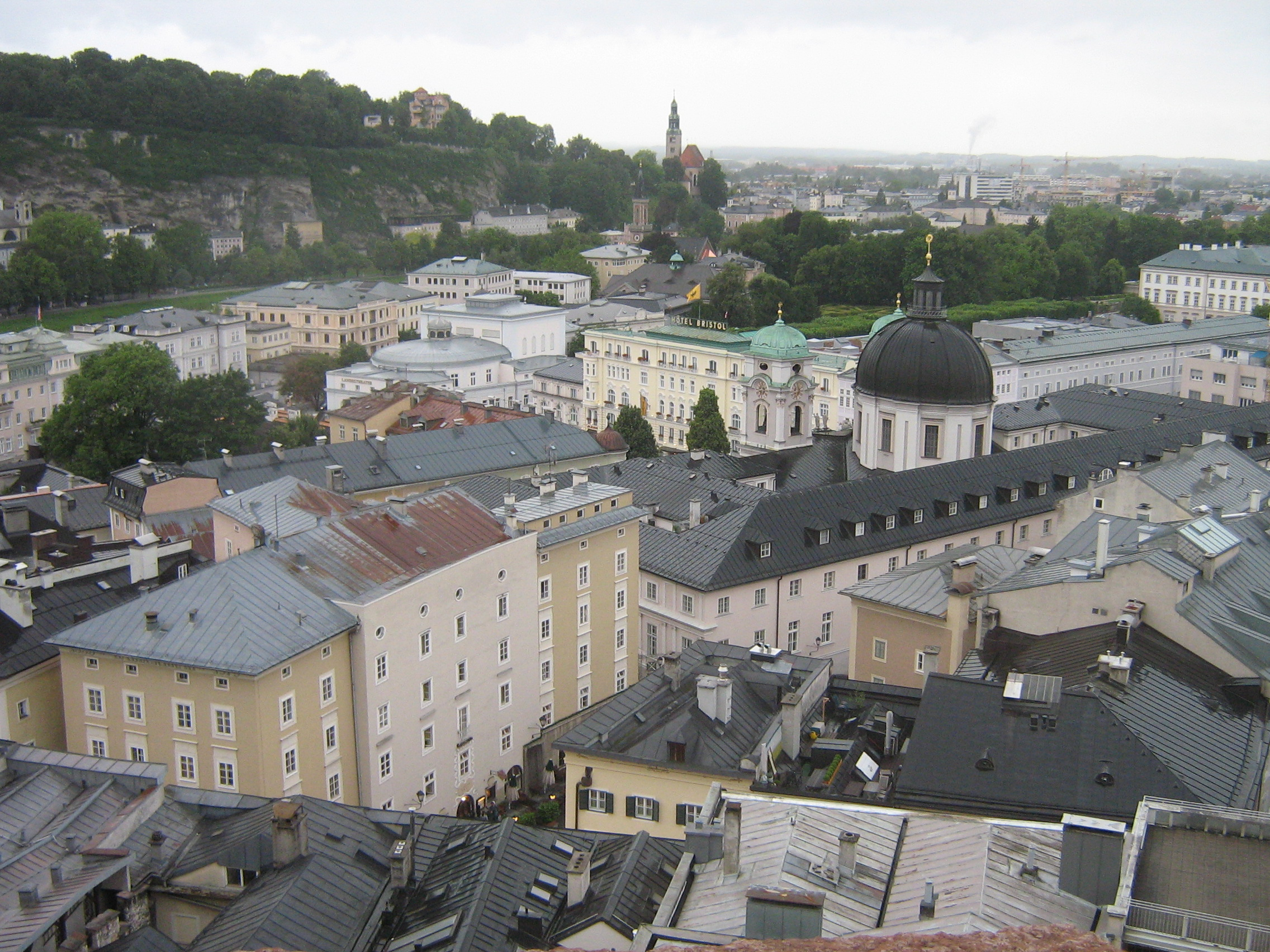 Austria, Salzburg, Kapuzinerberg